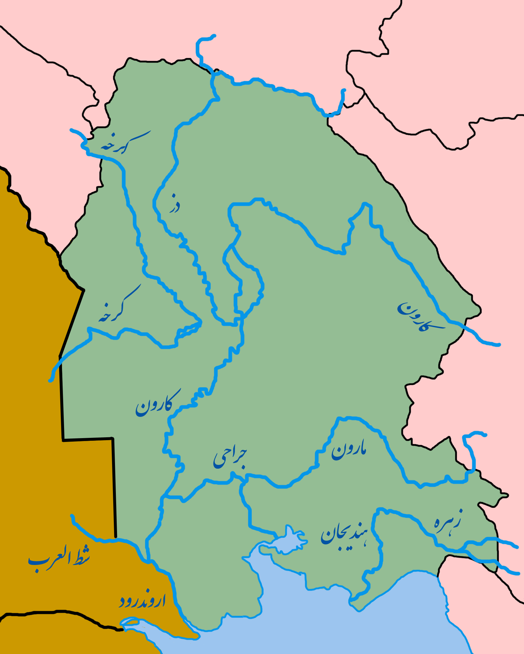 rivers in Khuzestan province, Iran.